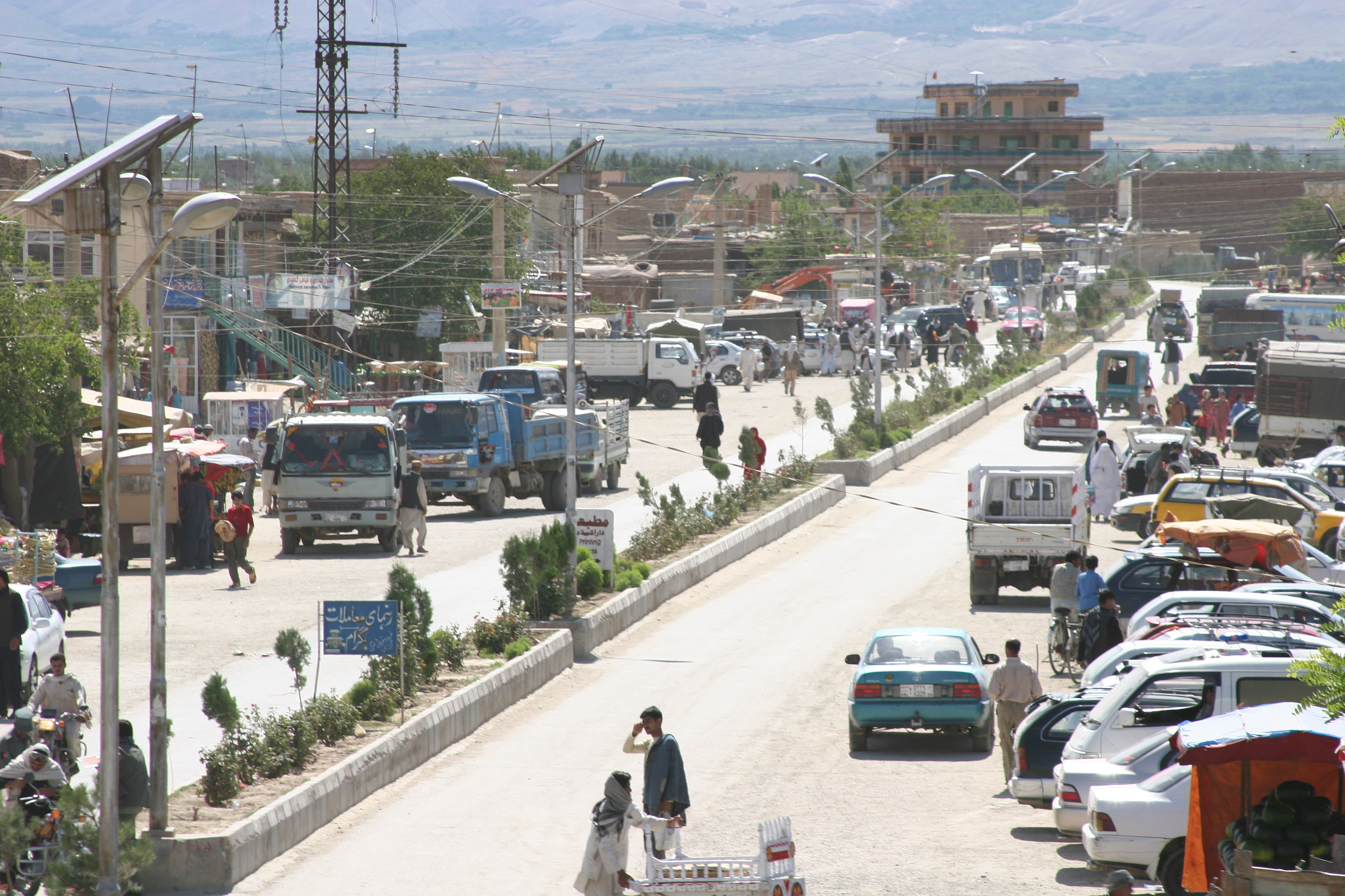 Bagram, Afghanistan. This is a photograph of the bazaar in Bagram city.